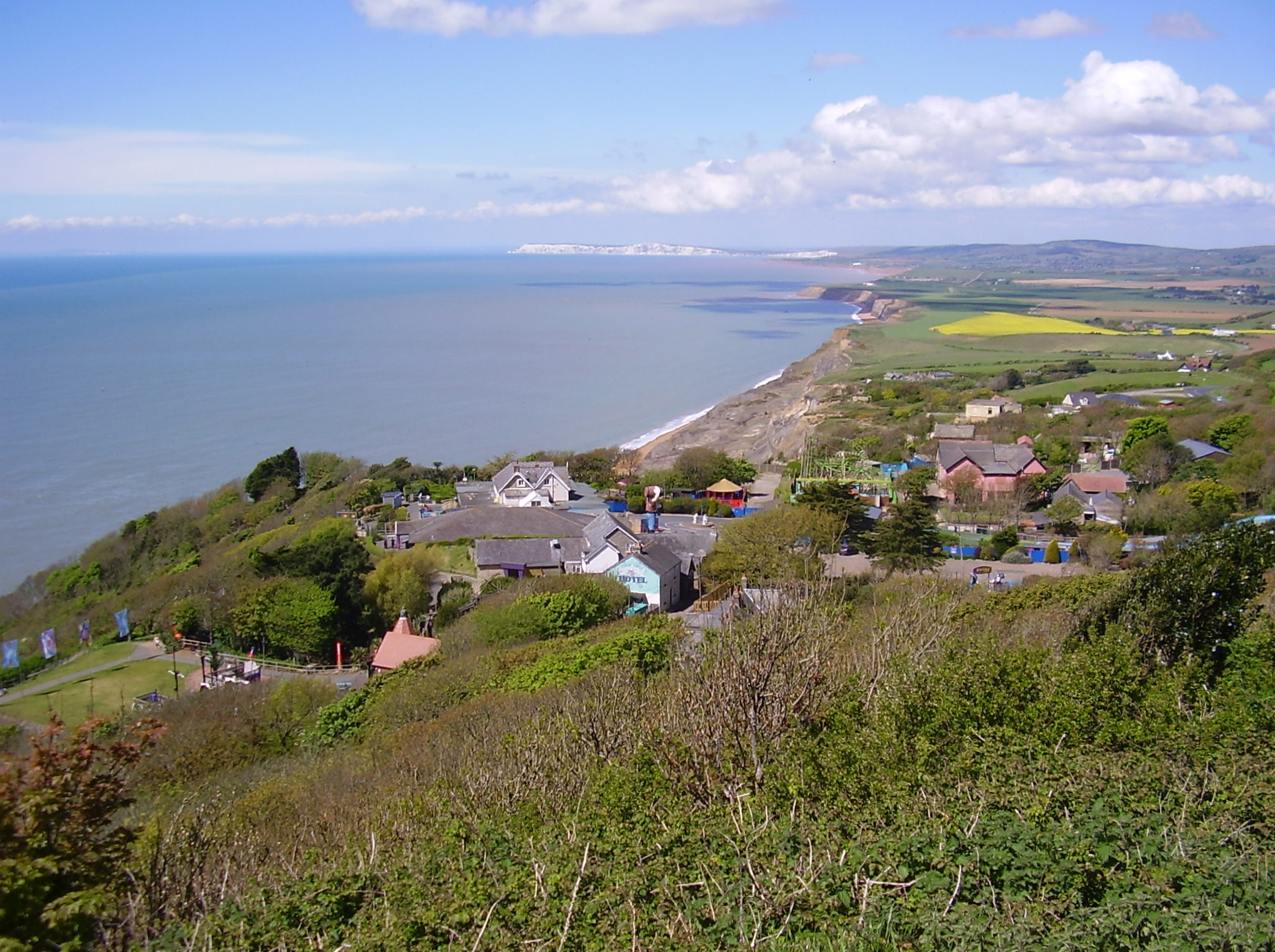 View of Blackgang (foreground) and the south-west coast of the Isle of Wight.